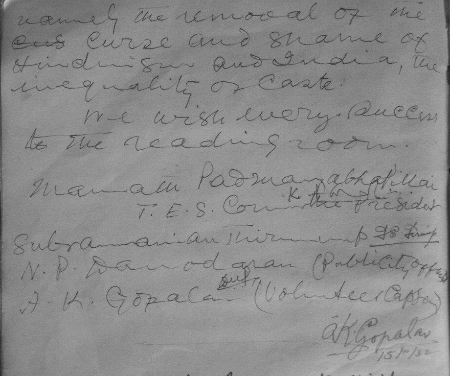 AKG's hand writing in Karunagapally Lalaji library's visitors book